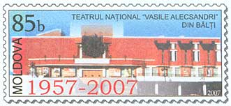 Stamp of Moldova